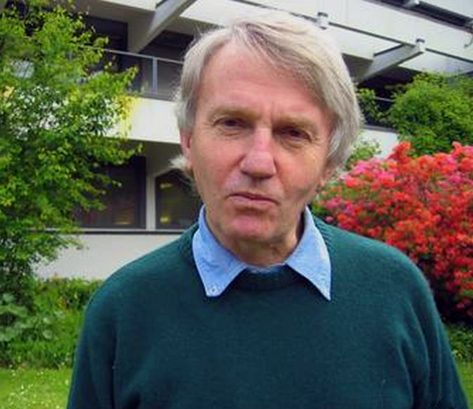 John Coates, Oberwolfach 2006